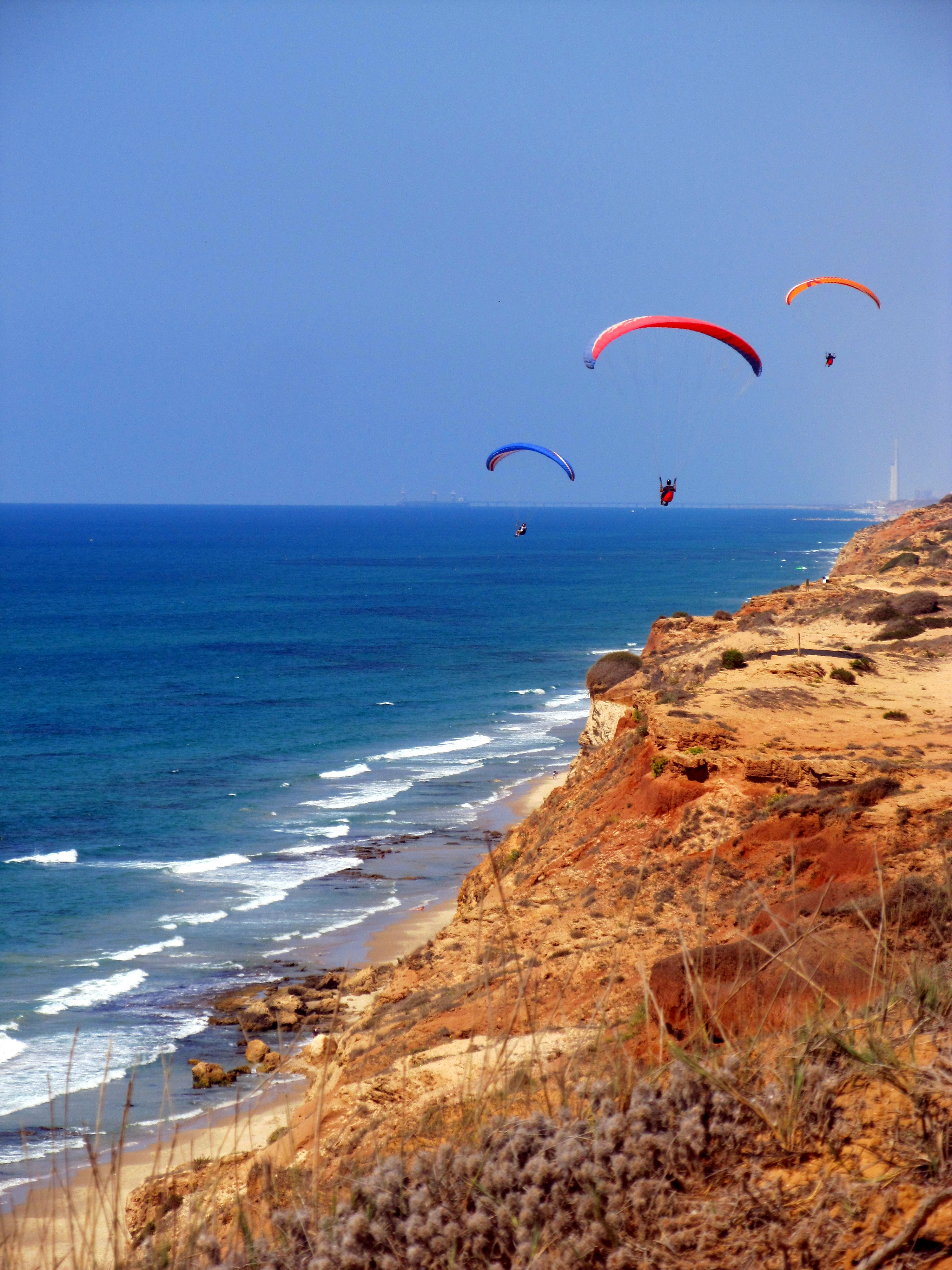 Ridge Soaring in Ga'ash